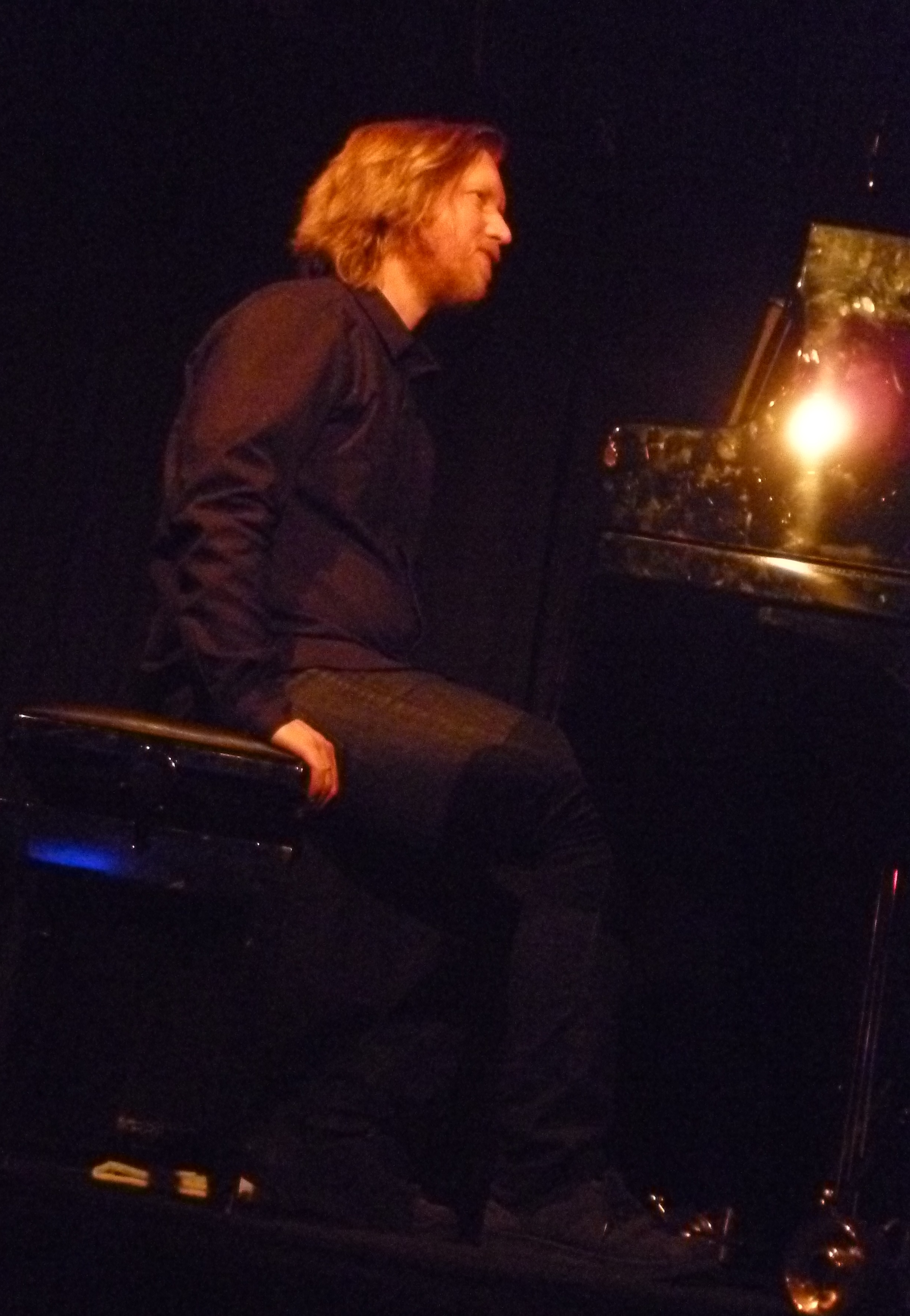 Helge Lien with Adam Bałdych at Nattjazz 2016, Sardinen, USF Verftet, Bergen, Norway.